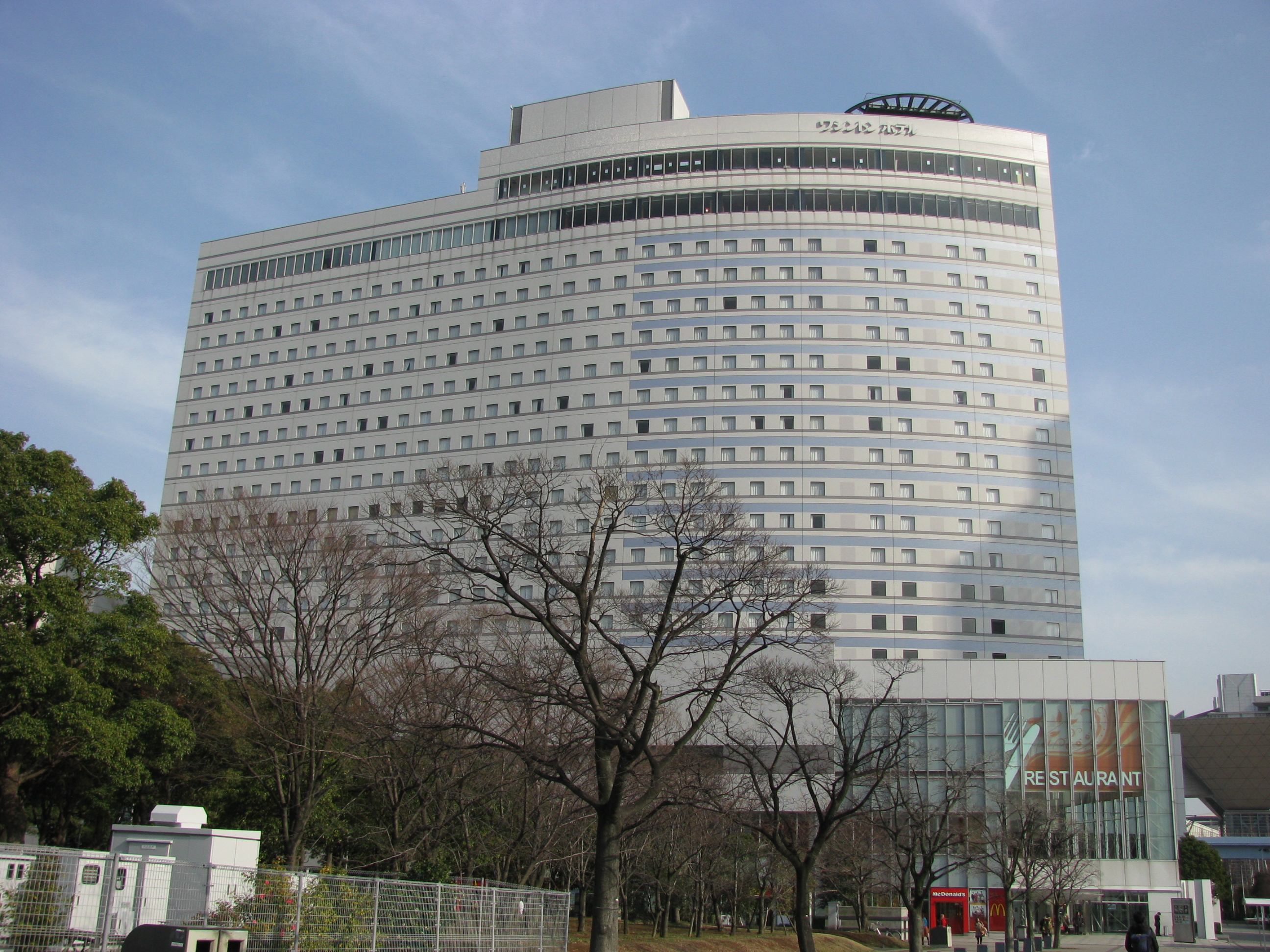 Tokyo Bay Ariake Washington Hotel. This place is Ariake in Kōtō, Tokyo, Japan.